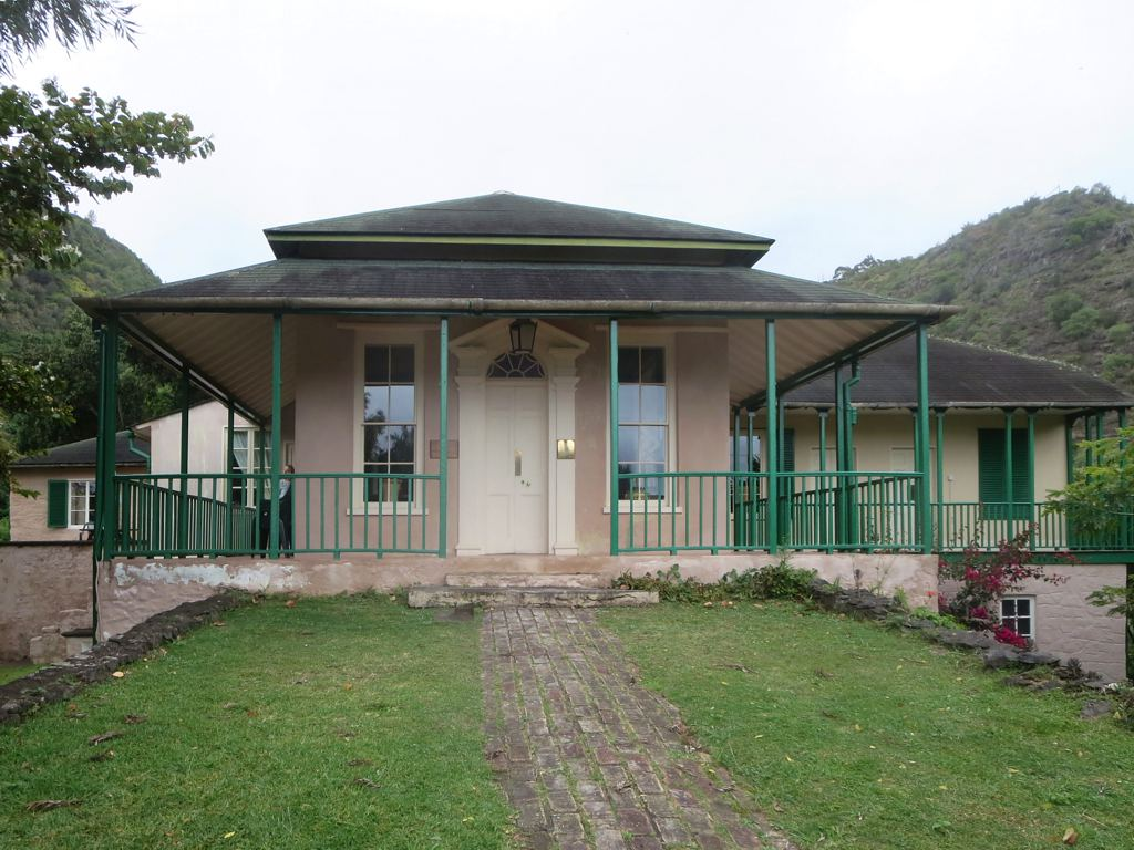 Napoleon Bonaparte spent his first two months on St Helena Island at Briars Pavilion, originally a summerhouse on the Balcombe Estate at Alarm Forest.